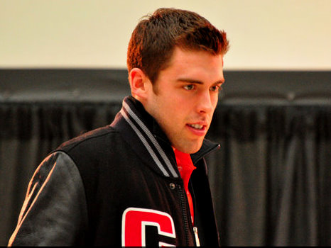 Canadian defenceman Brandon Gormley during a press conference for the 2012 World Junior Championships on December 23, 2011, in Edmonton, Alberta.